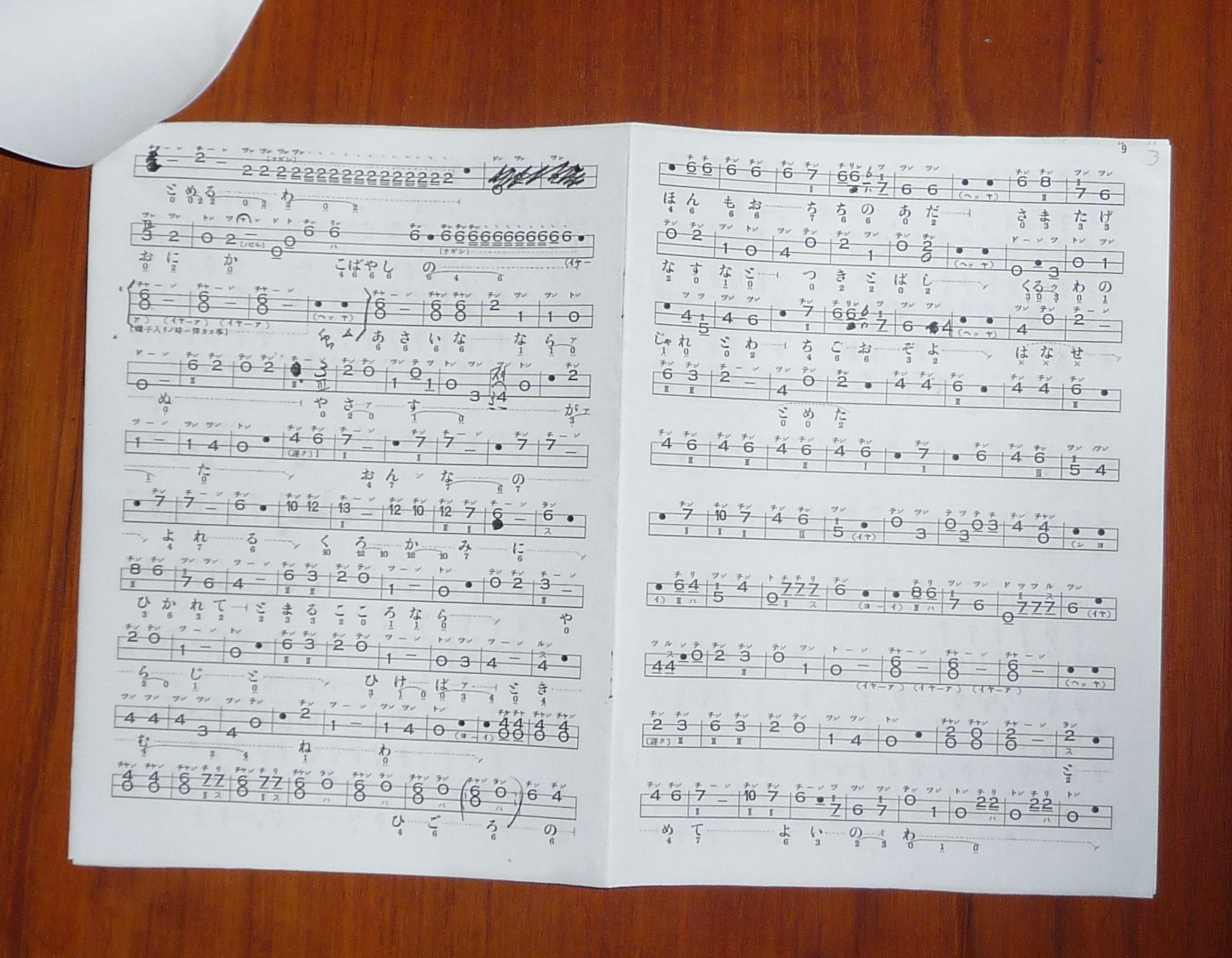 Shamisen notation